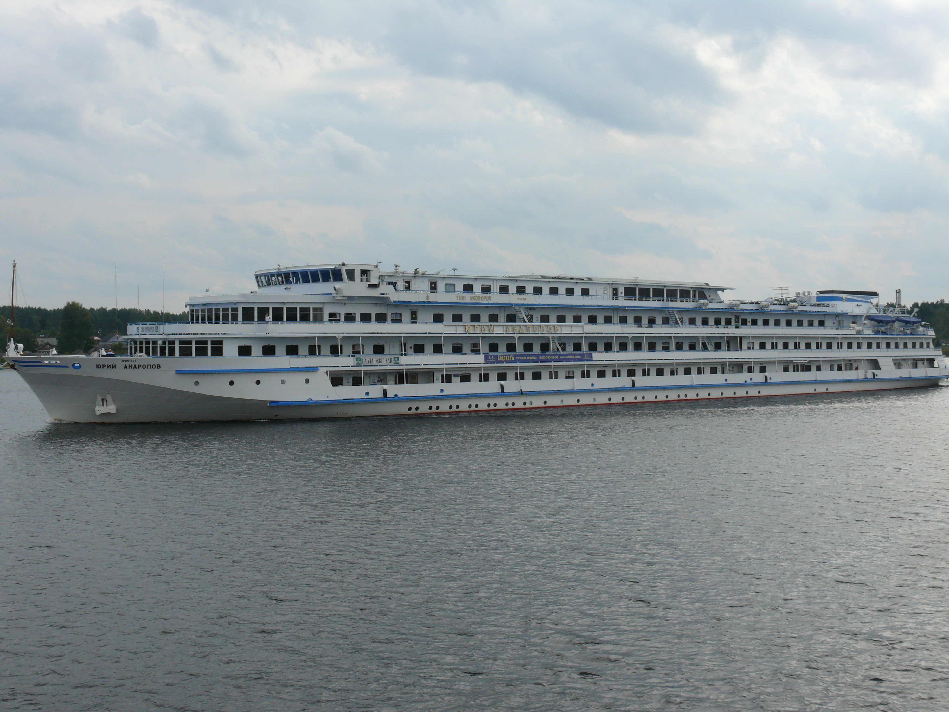 River cruise ship Yuriy Andropov